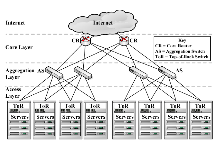 Architecture of a Data Center